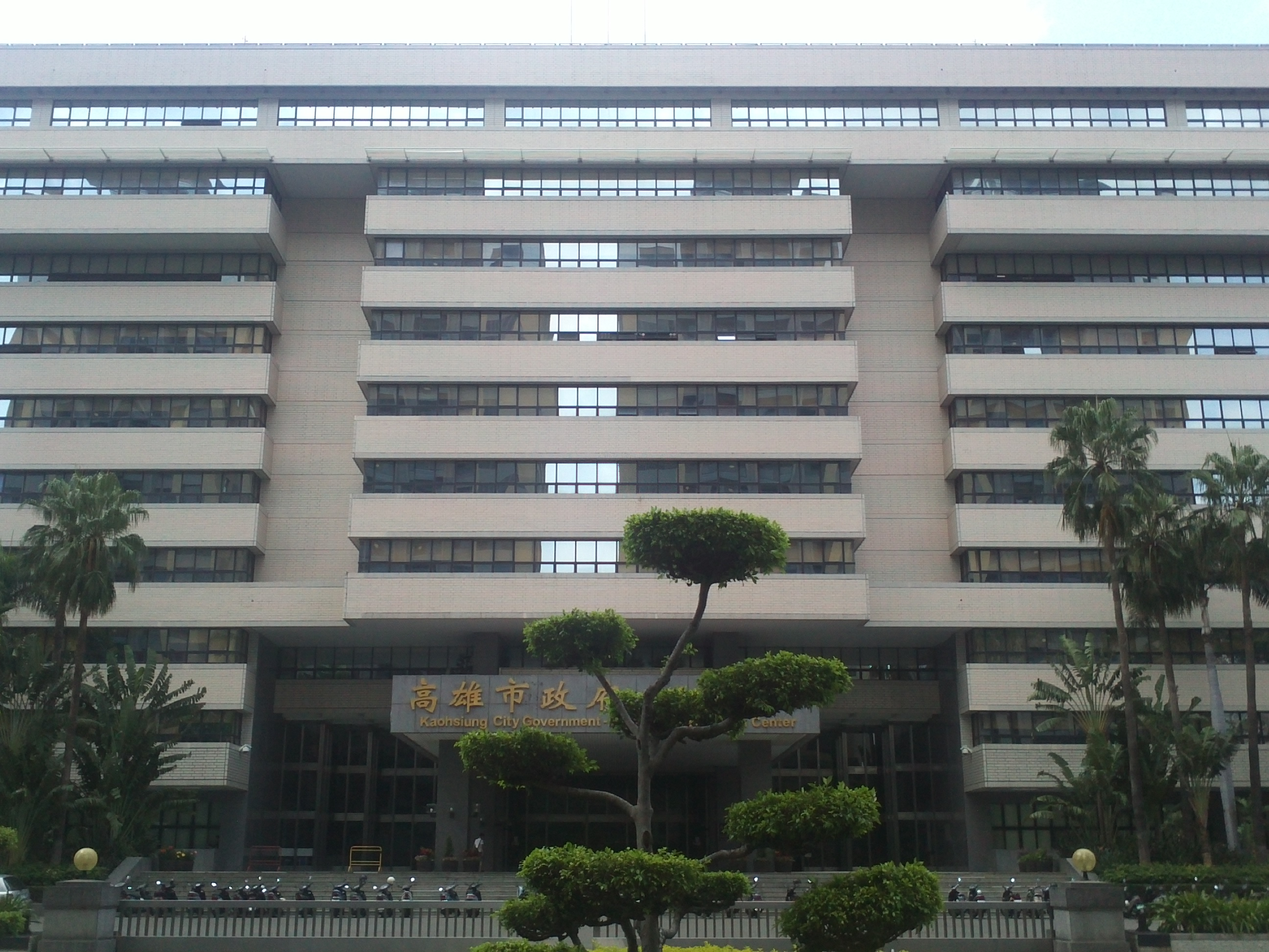 Sihwei Administration Center, Kaohsiung City Government